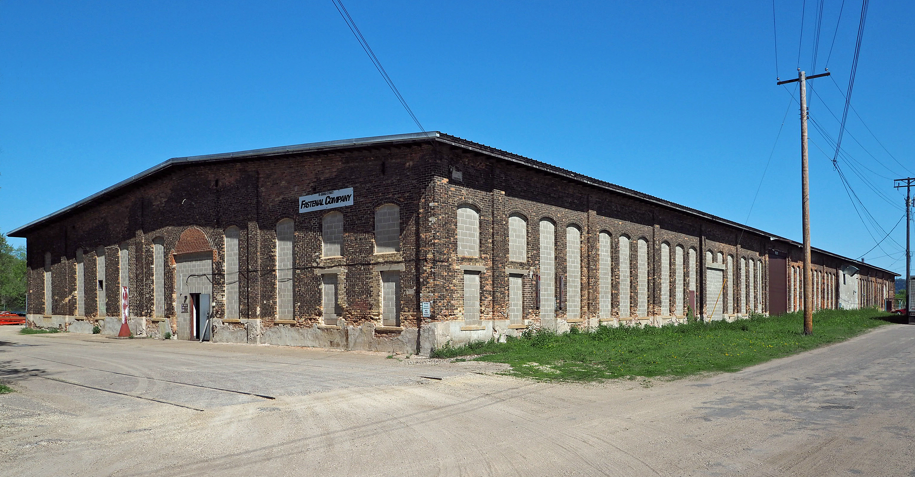 Winona & St Peter Engine House (now a Fastenal property), 75 Gould St, Winona, Minnesota, USA. Viewed from the southeast.